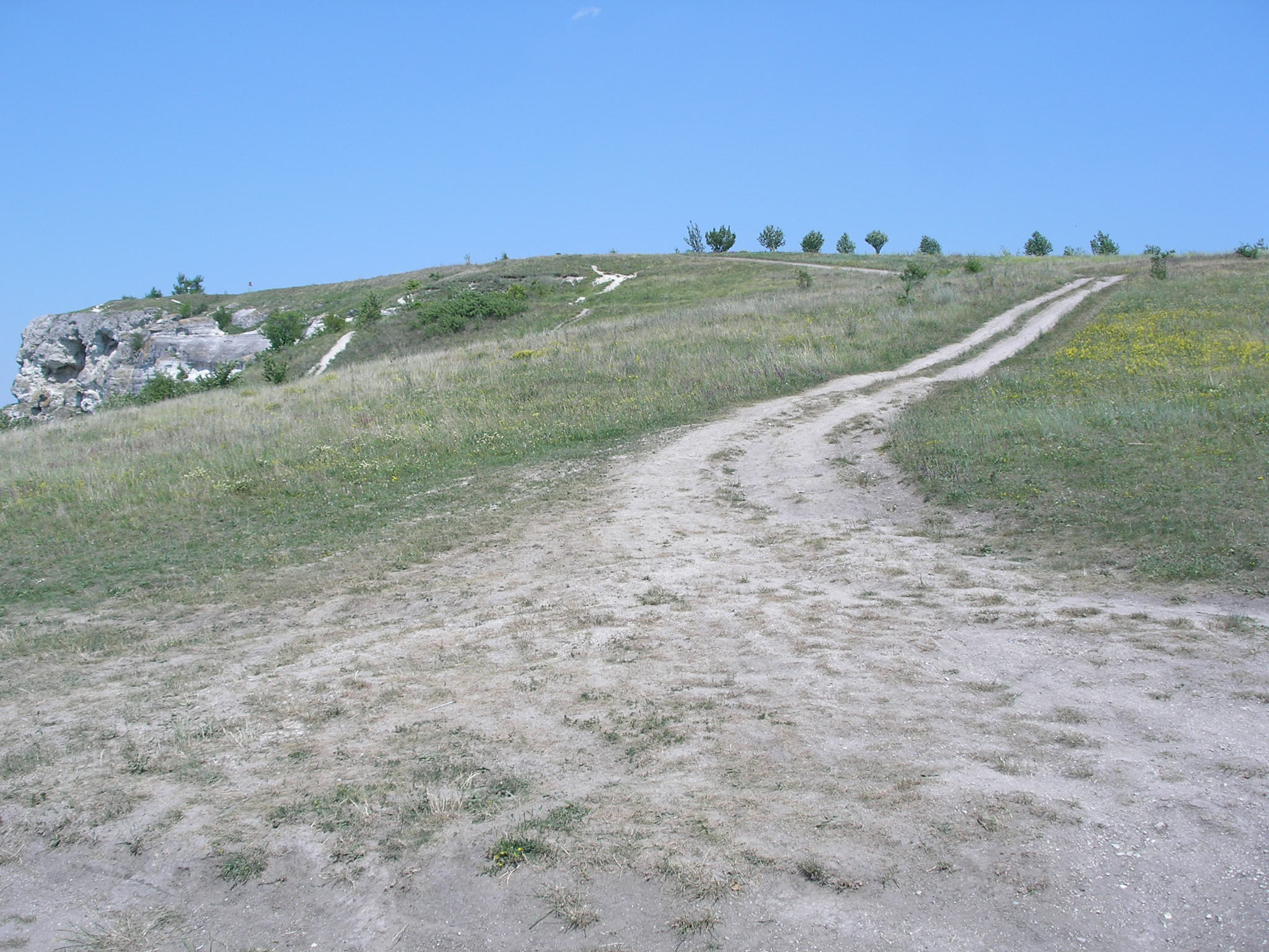 The National Environmental Park "Podilski Tovtry" in western Ukraine.